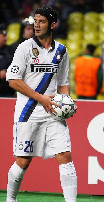 Cristian Chivu playing for Internazionale in a Champions League game against PFC CSKA Moscow, in Moscow.